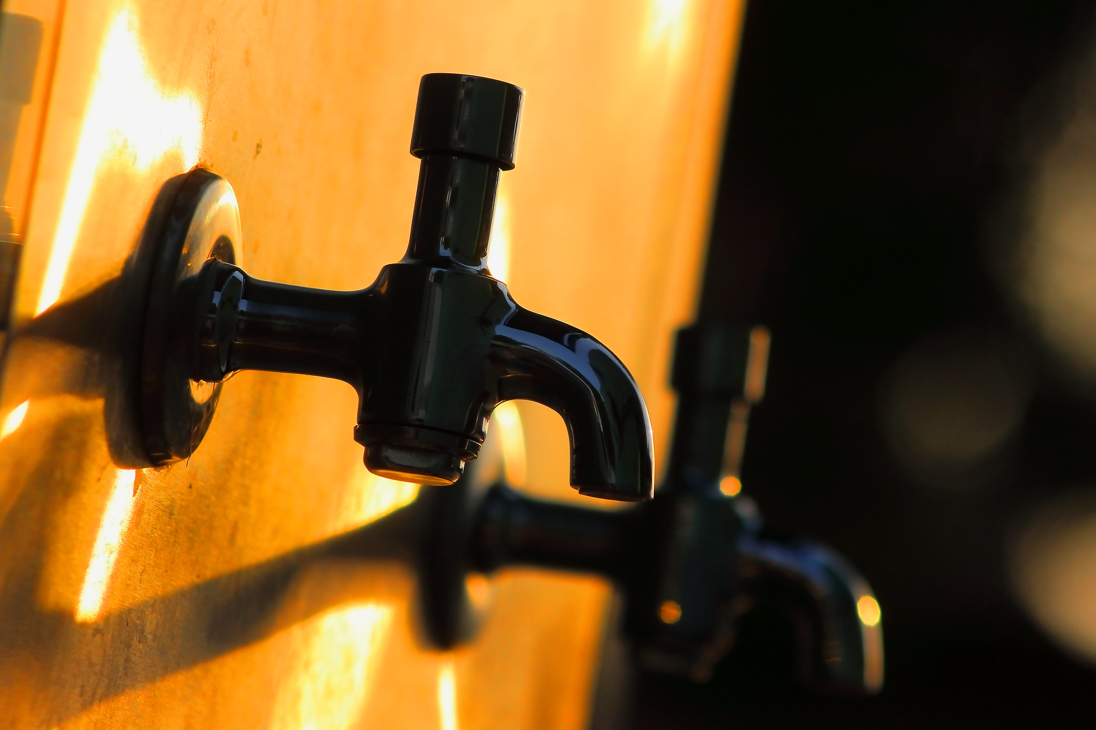 water scarcity awareness